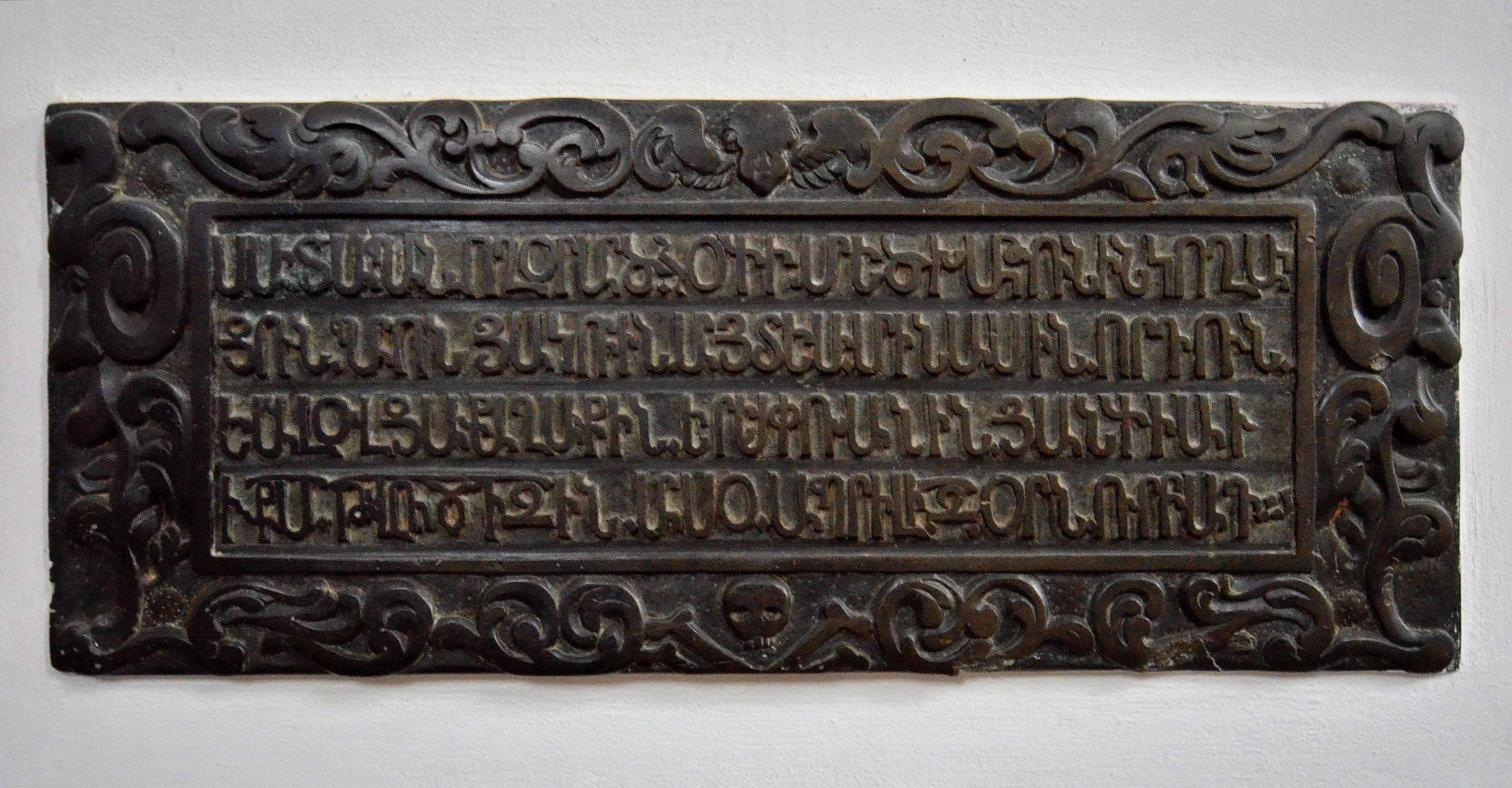 Epitaph in Classical Armenian for Jakub (died 1683) and Marianna (died 1671) Minasowicz at St. Hyacinth's Church in Warsaw